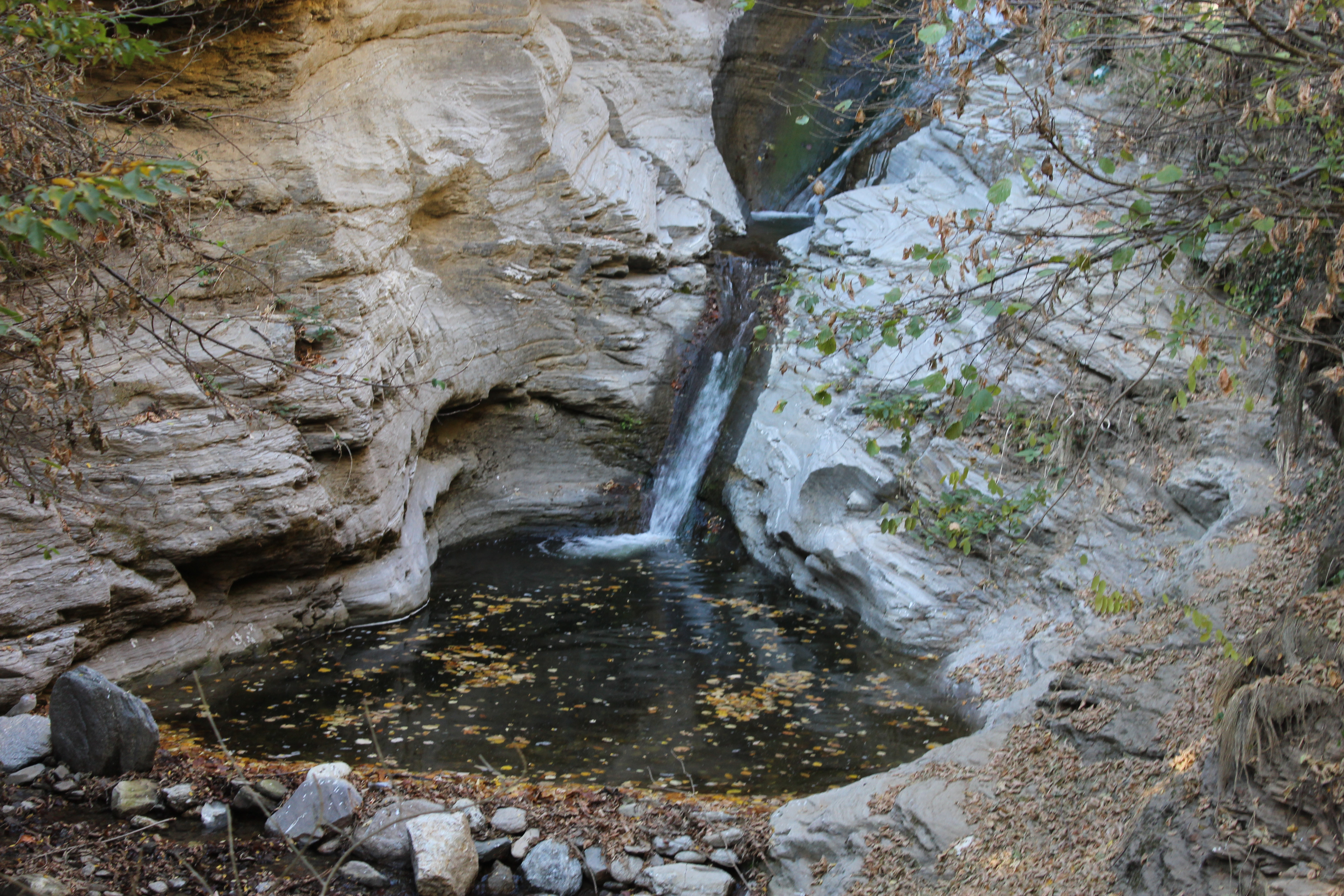 Vranjska river canyon. Srpski (latinica): Kanjon Vranjske reke.